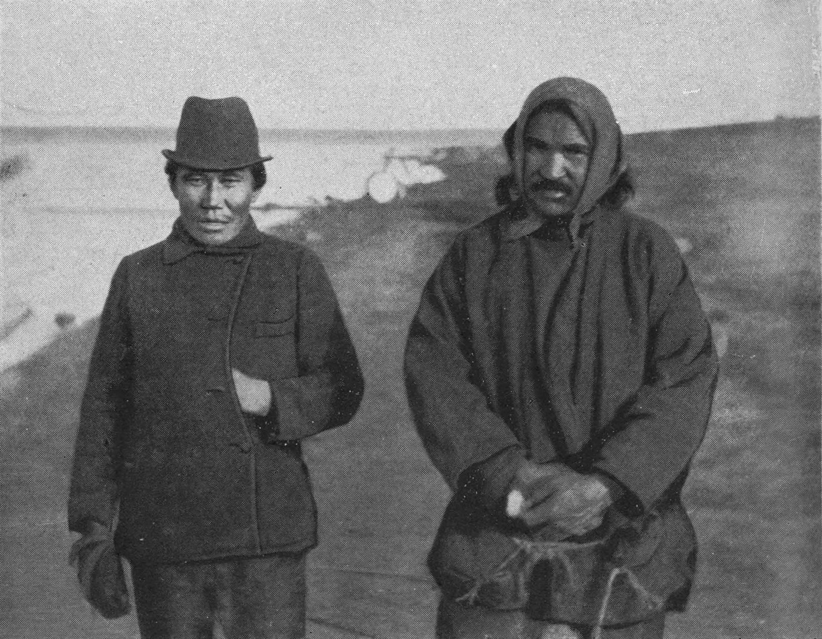 At Levinski Pesok. A civilized Yenisei Samoyede and a Yenisei-Ostiak